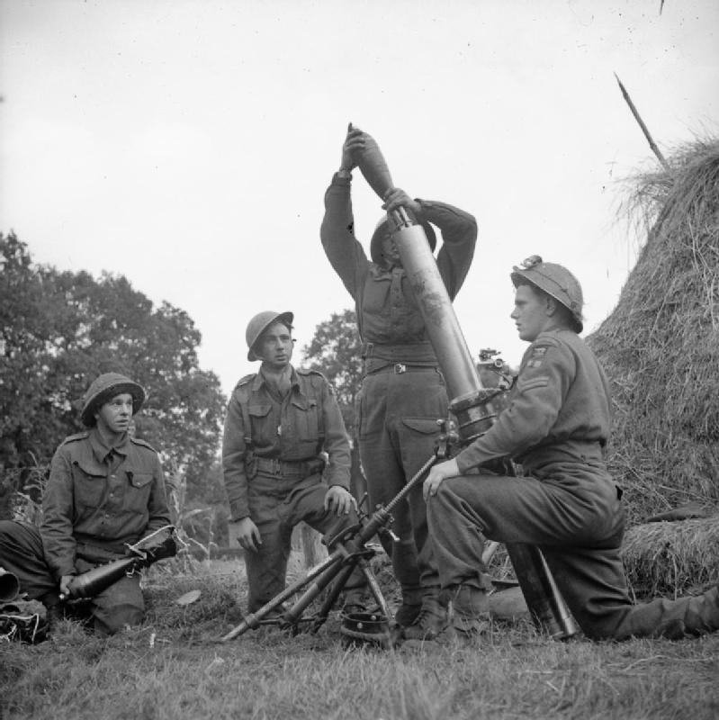 The British Army in North-west Europe 1944-45 4.2-inch mortar of the 2nd Kensington Regiment, 49th (West Riding) Division in action at Turnhout, Belgium, 1 October 1944.